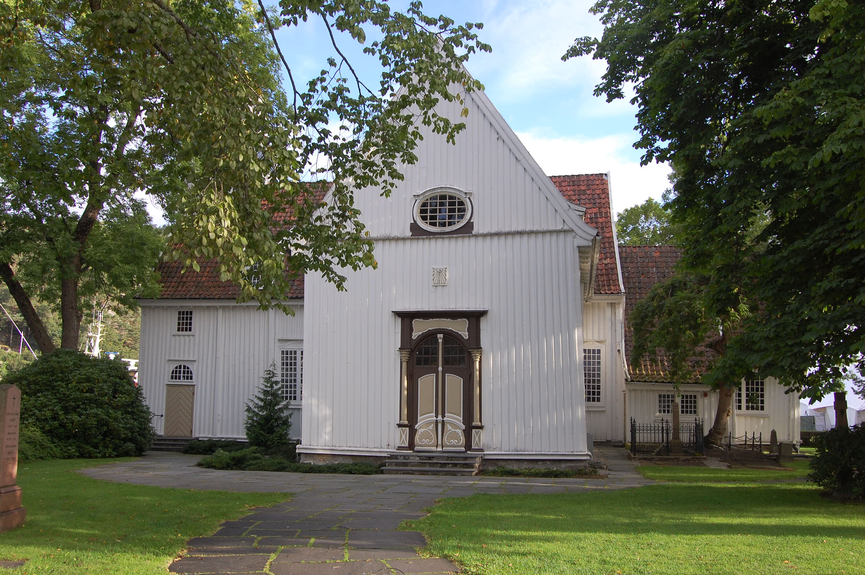 Photo of the outside of Egersund Kirke.